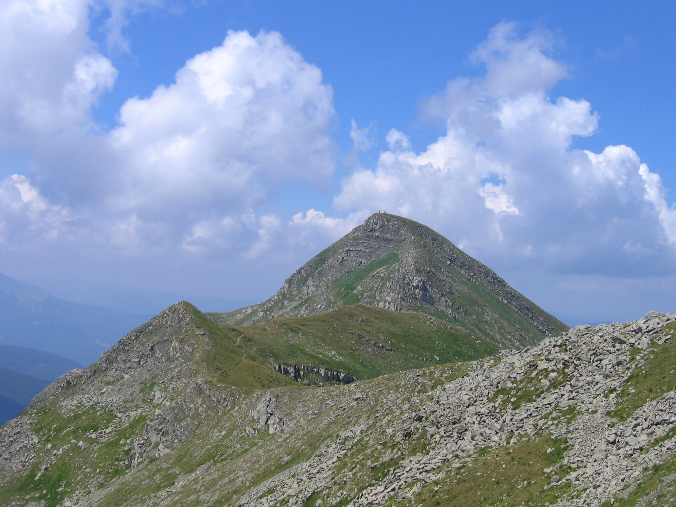 Approaching the summit of Monte Cusna, the 2nd highest peak in the Northern Apennines.